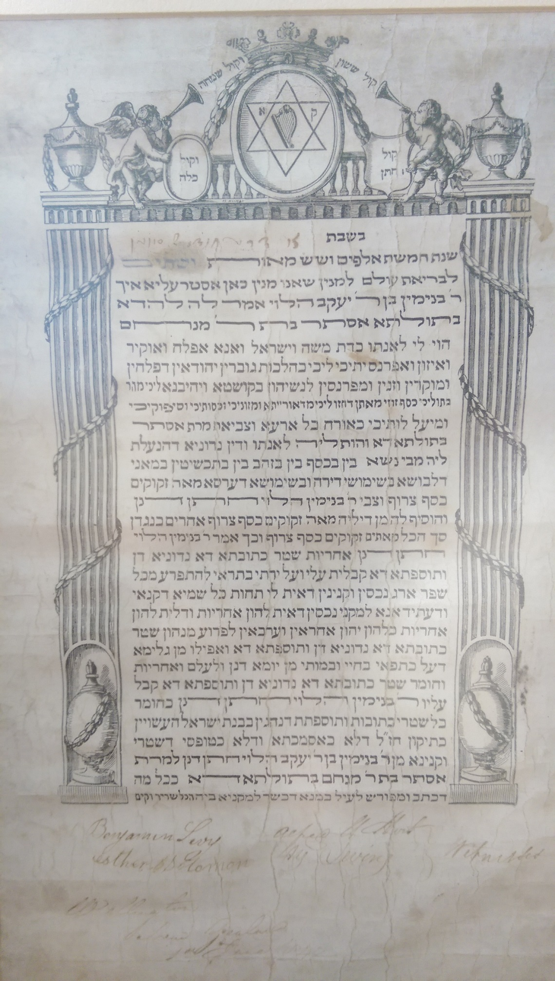 1842 Ketubah, or, wedding certificate for Benjamin Levy and Esther Solomon from Wellington New Zealand.